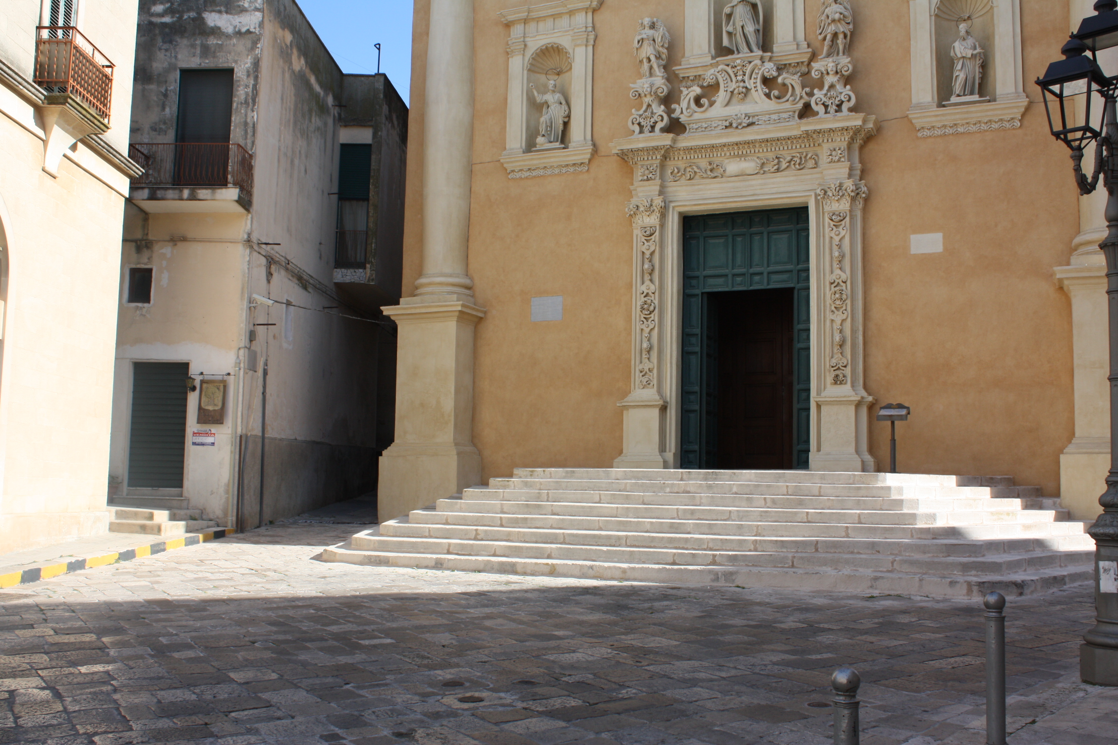 Casarano-Chiesa Madre "Maria SS. Annunziata" churchyard